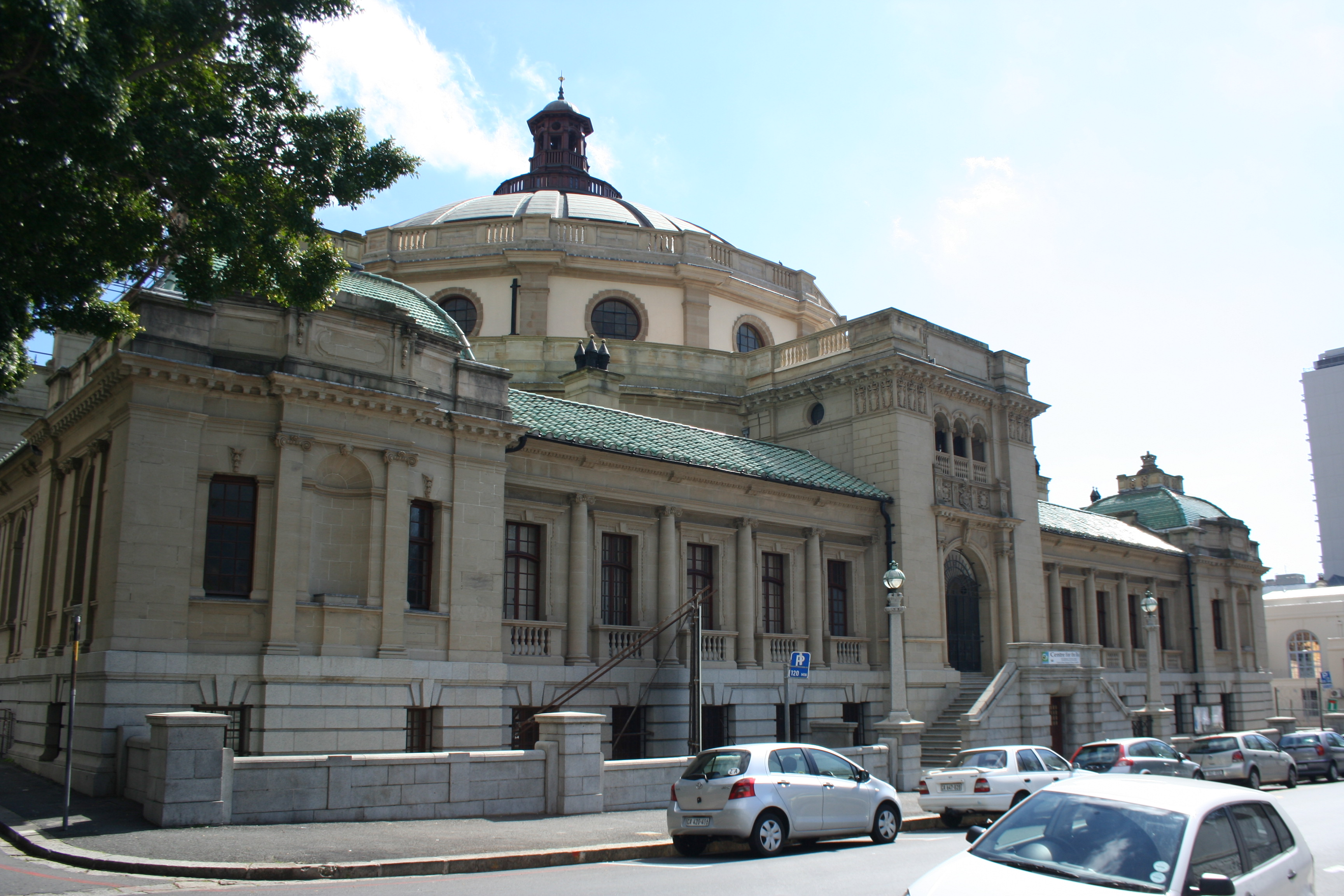 View of the Centre of the Book on Victoria St, Cape Town This media shows a South African Protected Site with SAHRA file reference 9/2/018/0086.